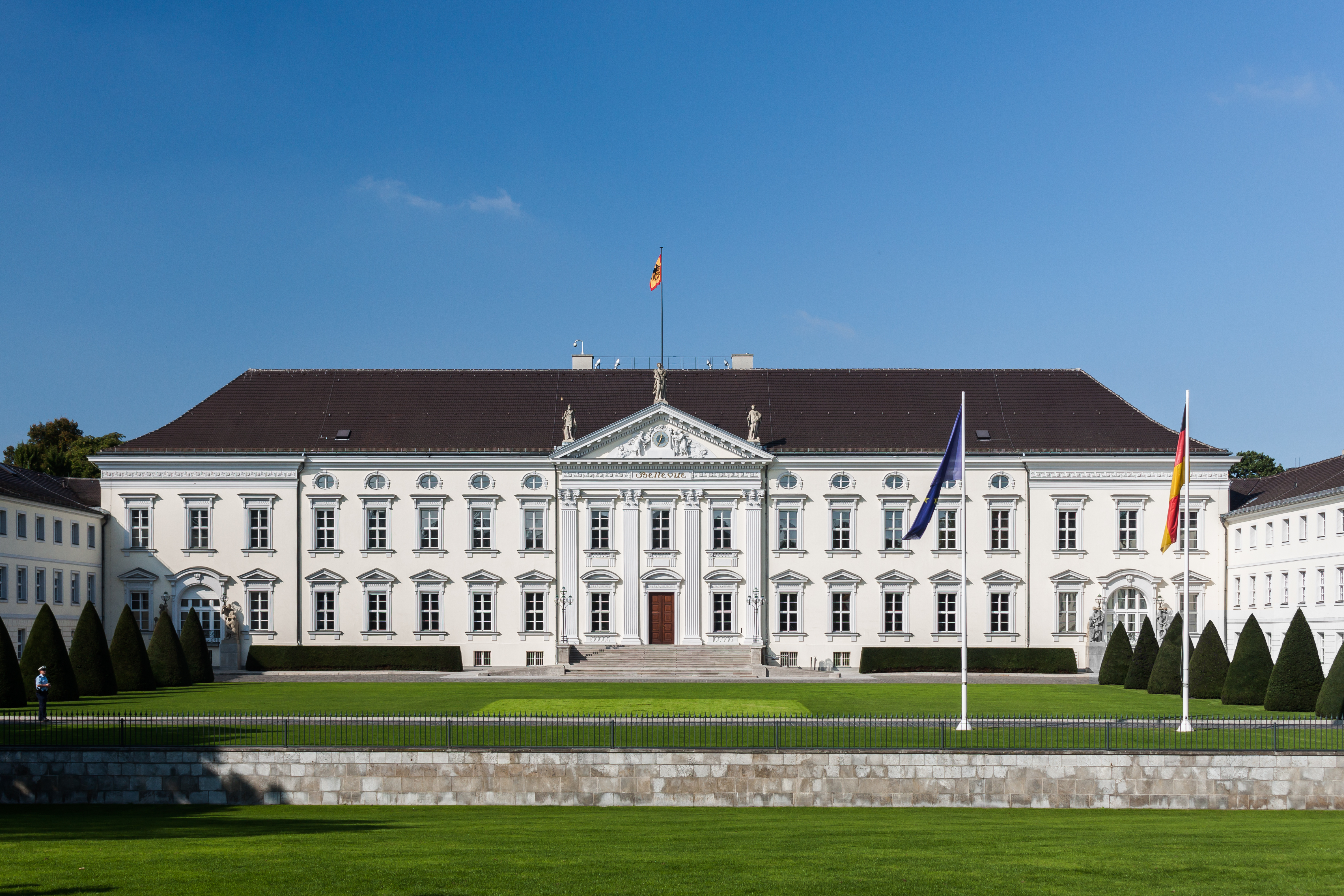 Schloss Bellevue is the residence of the President of the Federal Republic of Germany.